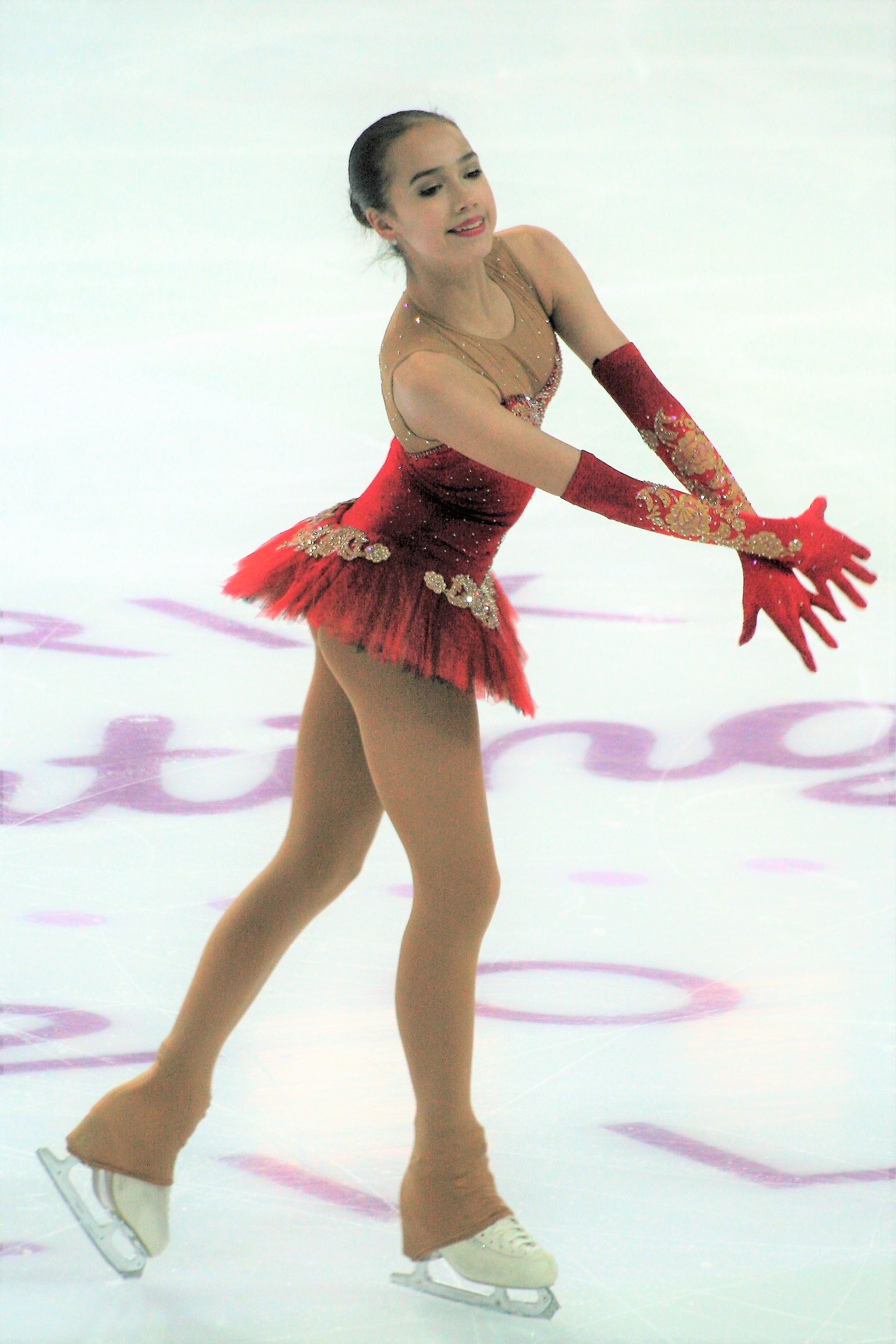 Alina Zagitova at the Junior Grand Prix Final 2016 - Free program